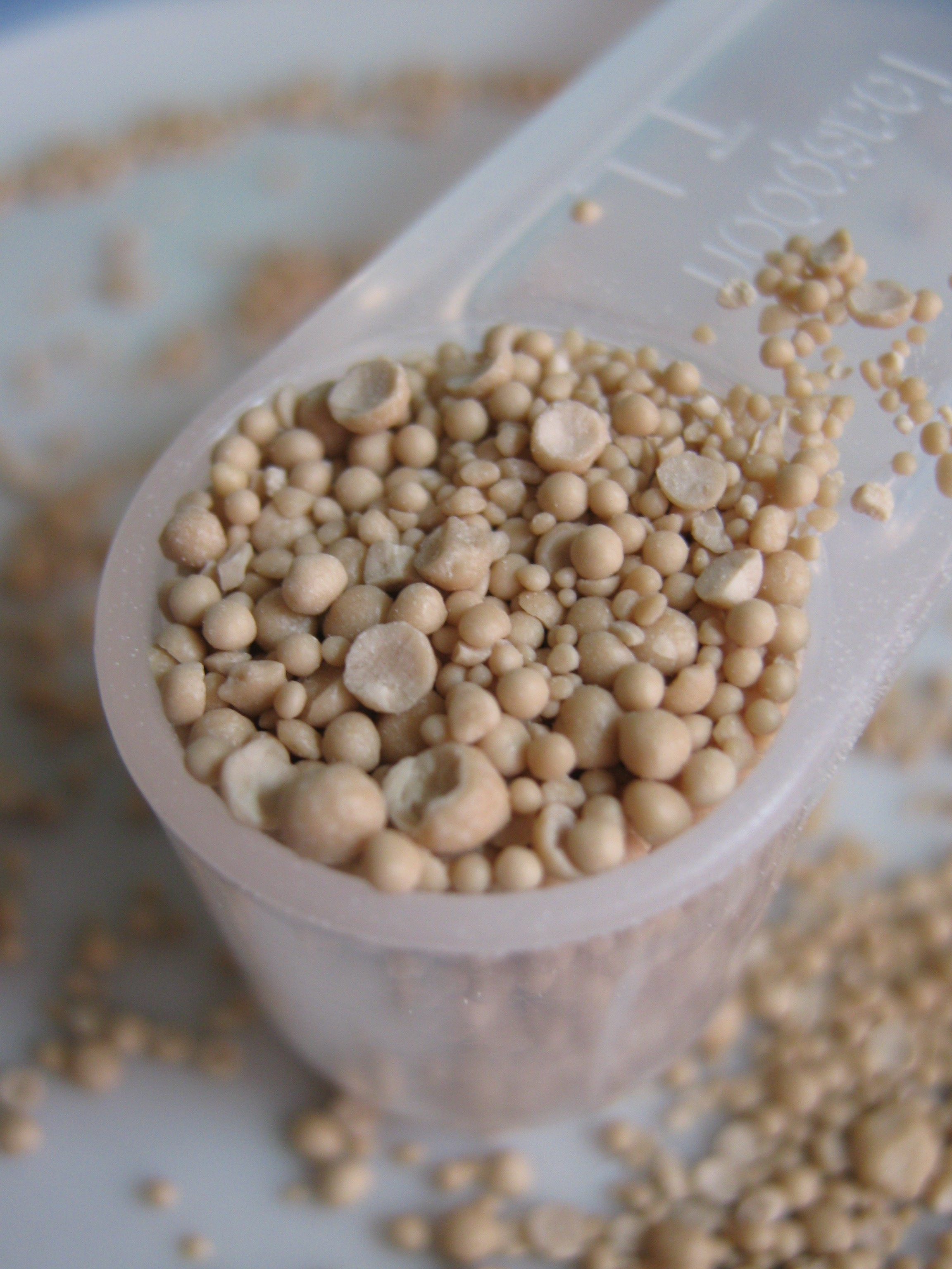 Baker's yeast. Active dry yeast.